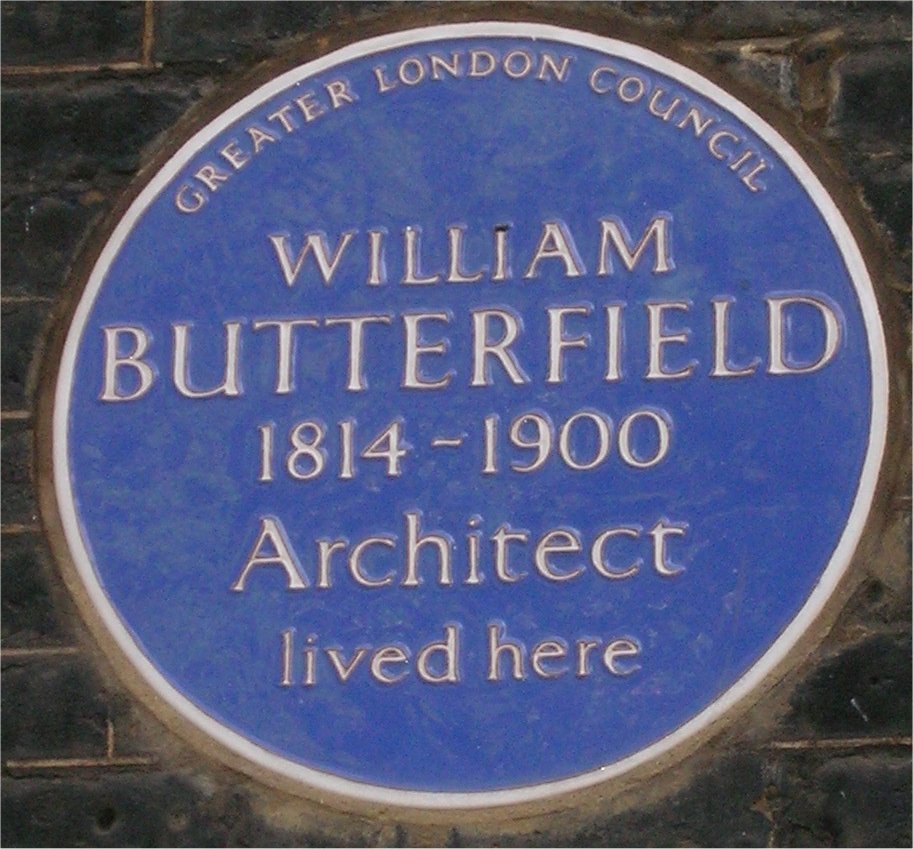 Blue plaque to William Butterfield on his house in Bedford Square, London, England. Photographed by me 29 September 2006.